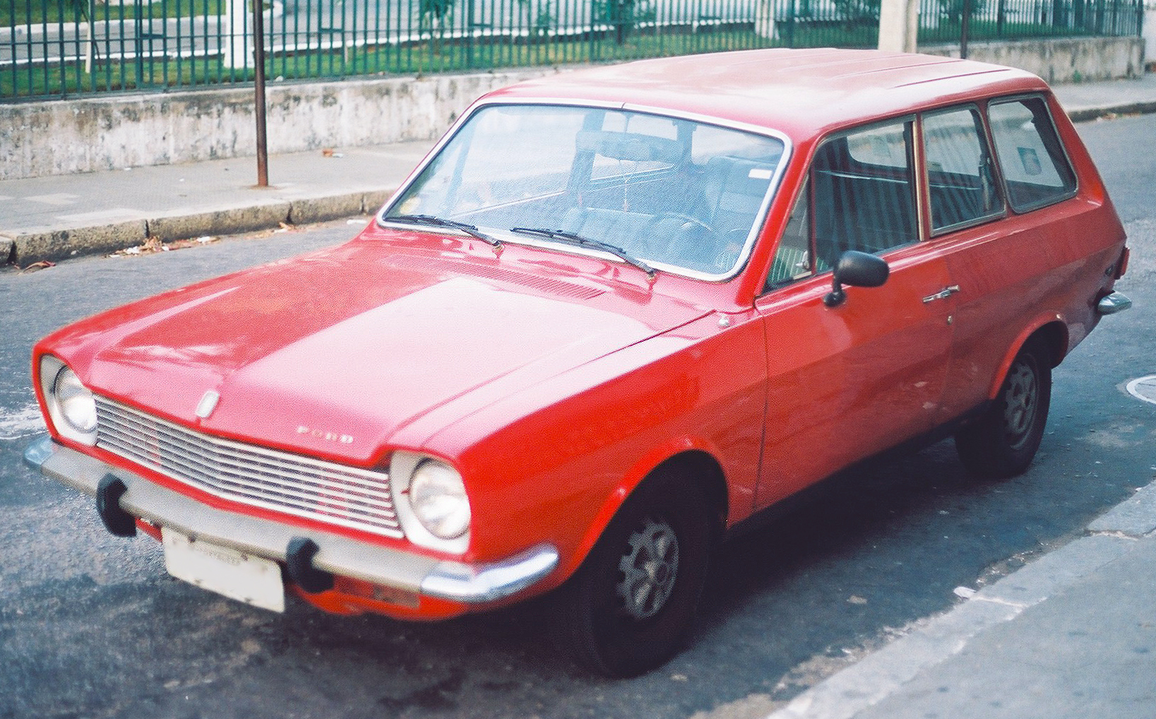 Ford Belina, 1975 facelift of the first generation